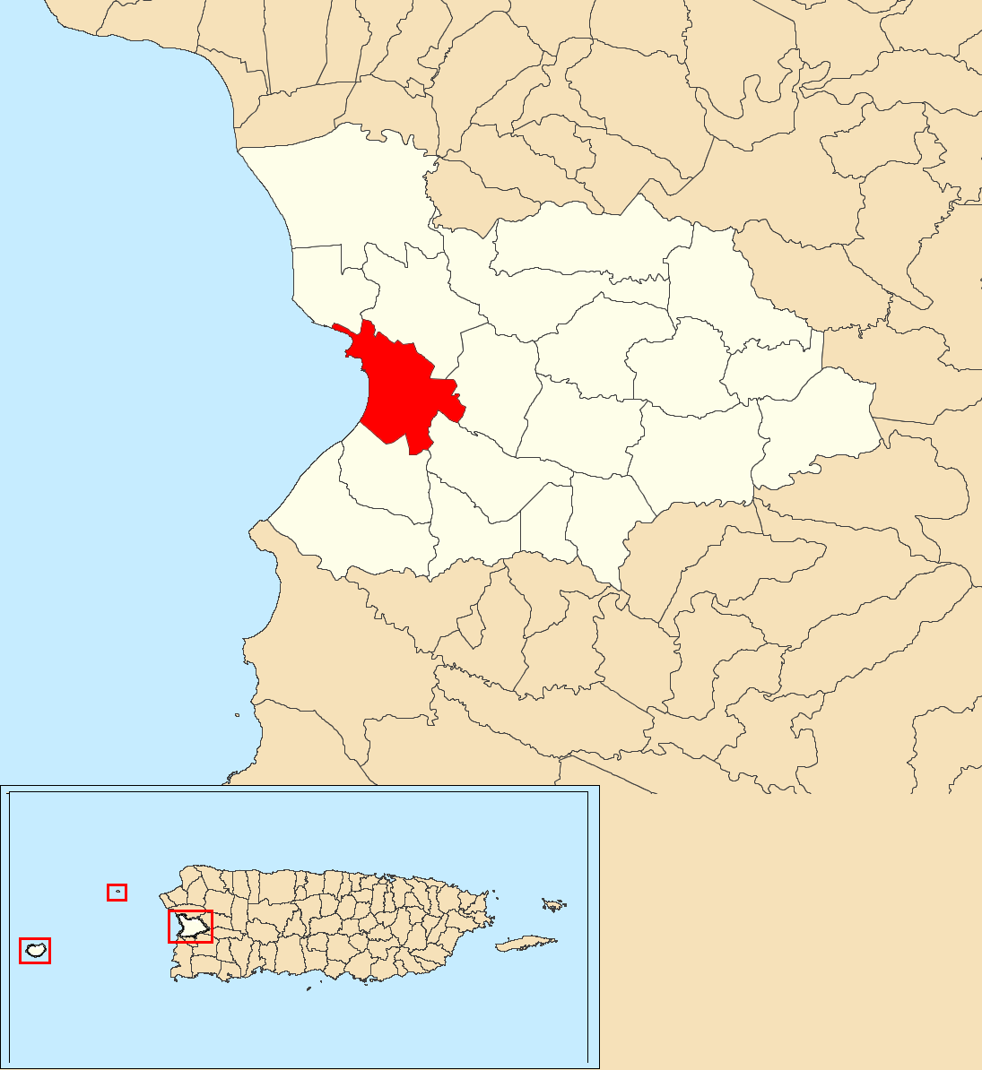 Mayagüez barrio-pueblo, Mayagüez, Puerto Rico locator map